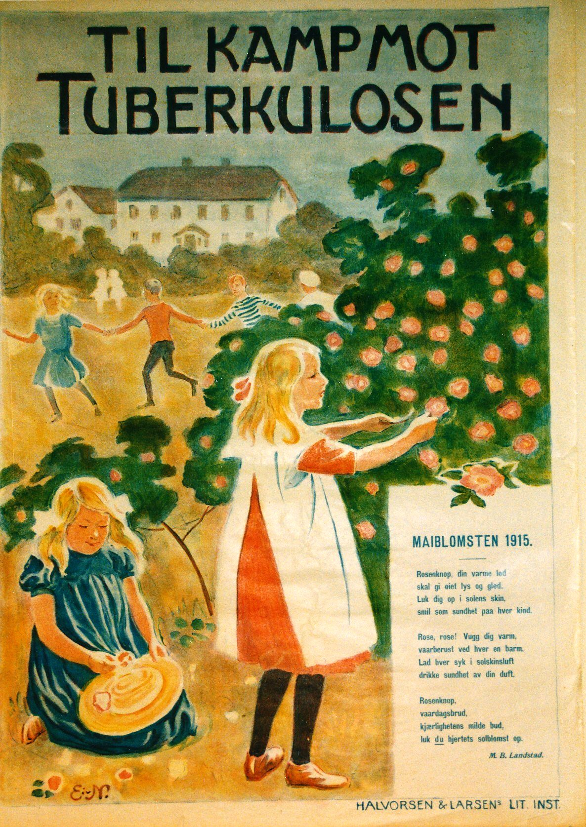 Norwegian poster from 1915 for selling may flower pins (mayblomstren/majblommor) to fight tuberculosis.